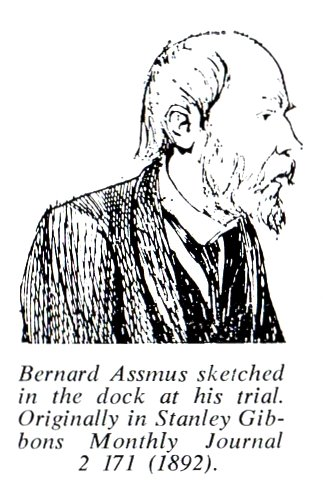 Sketch of Bernhardt Assmus in the dock during his trial from Stanley Gibbons Monthly Journal 1892.